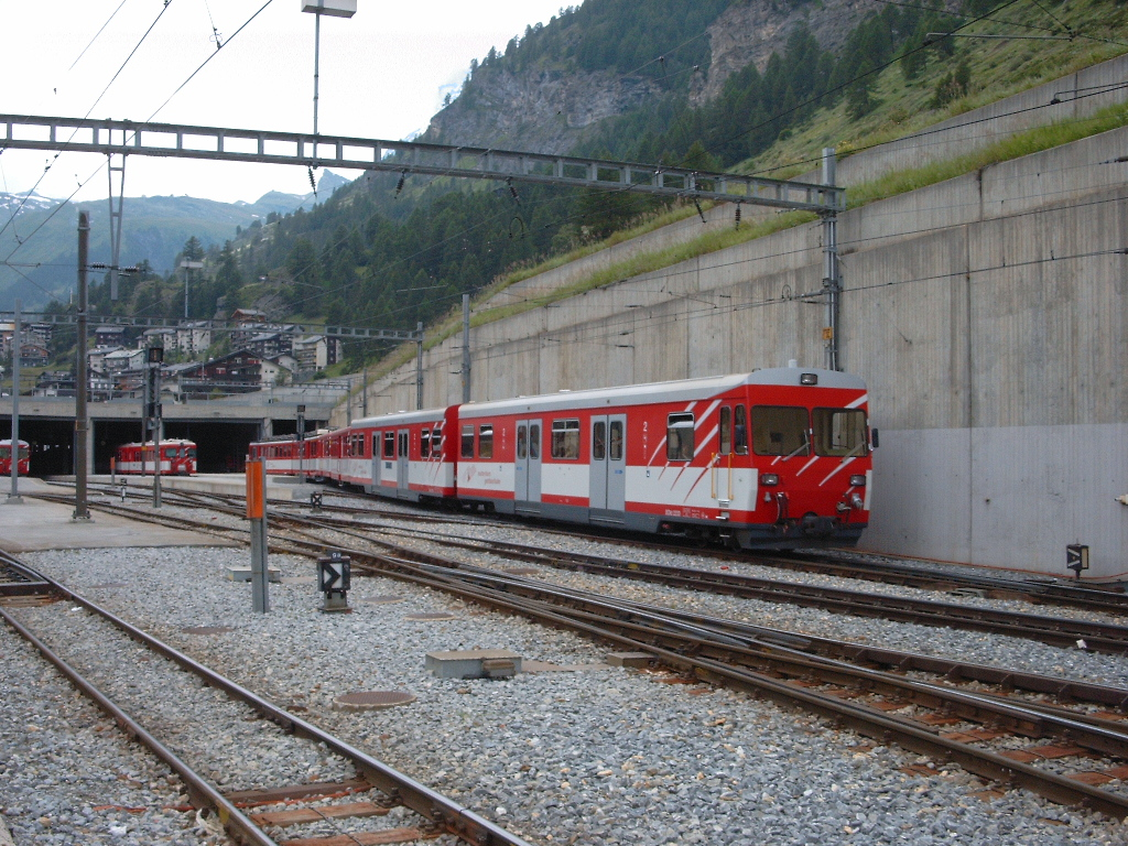 Push-pull shuttle train to Täsch in Zermatt